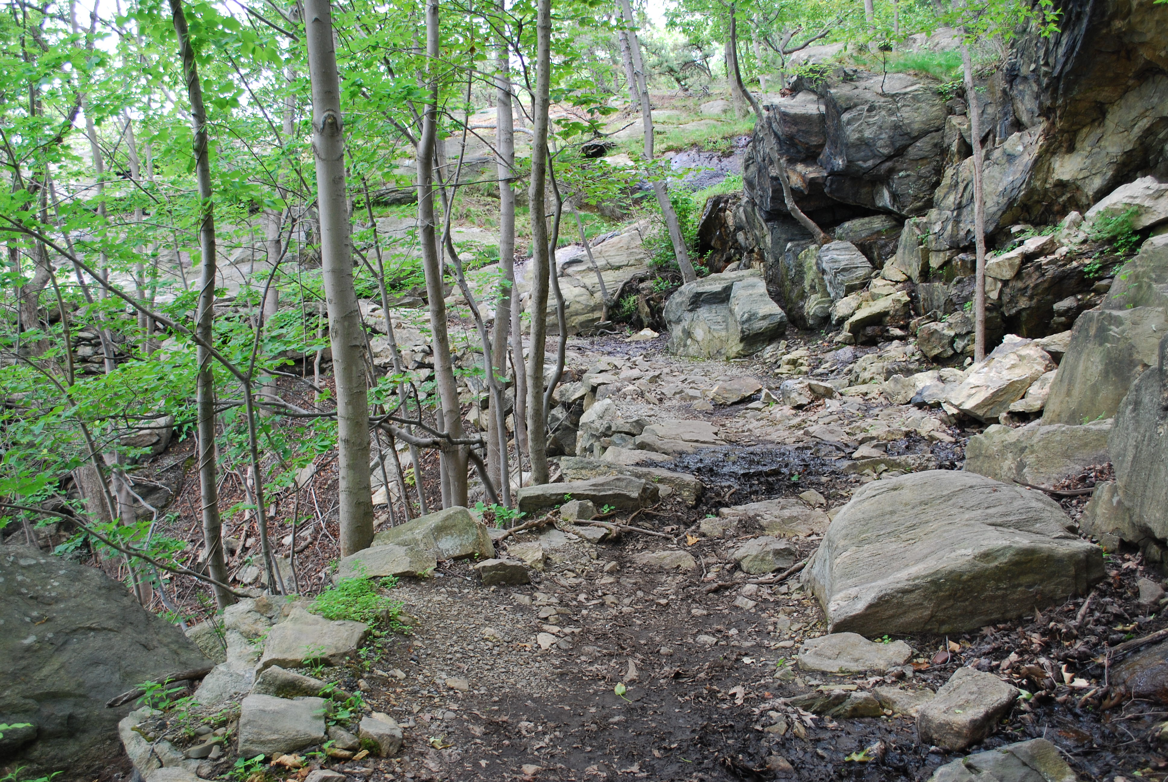 Flirtation Walk at the United States Military Academy. The trail, meant for the exclusive use of cadets and their guests, is both historic and broken & rocky. Visitors escorted by cadets should wear sturdy shoes